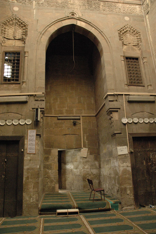 Mosque of Taghribardi. Cairo, Egypt